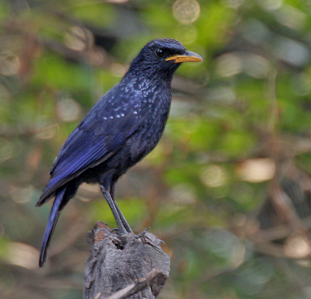 Blue Whistling Thrush Myophonus caeruleus at Jayanti in Buxa Tiger Reserve in Jalpaiguri district of West Bengal, India.